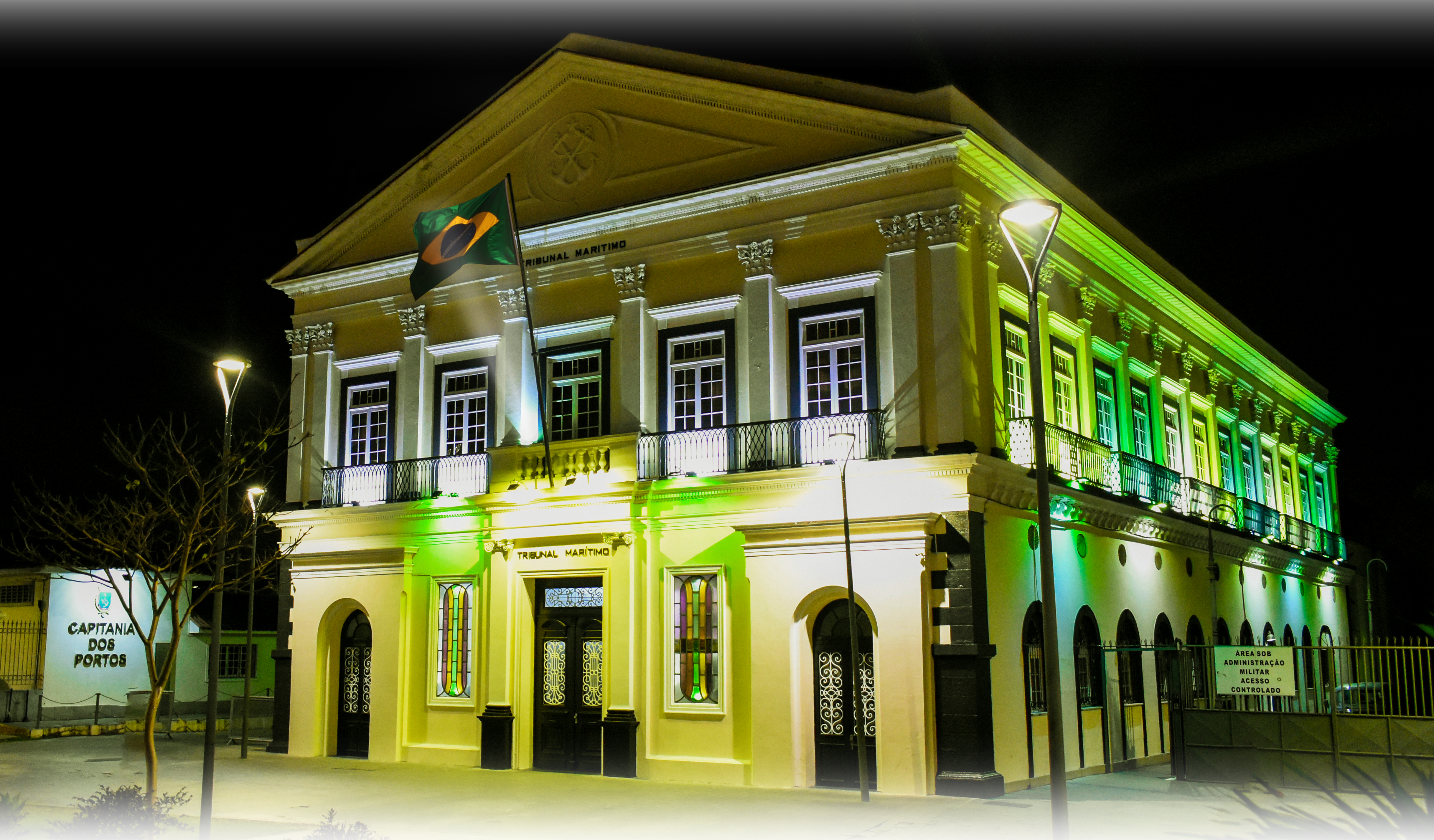 FACHADA_noturna_TM